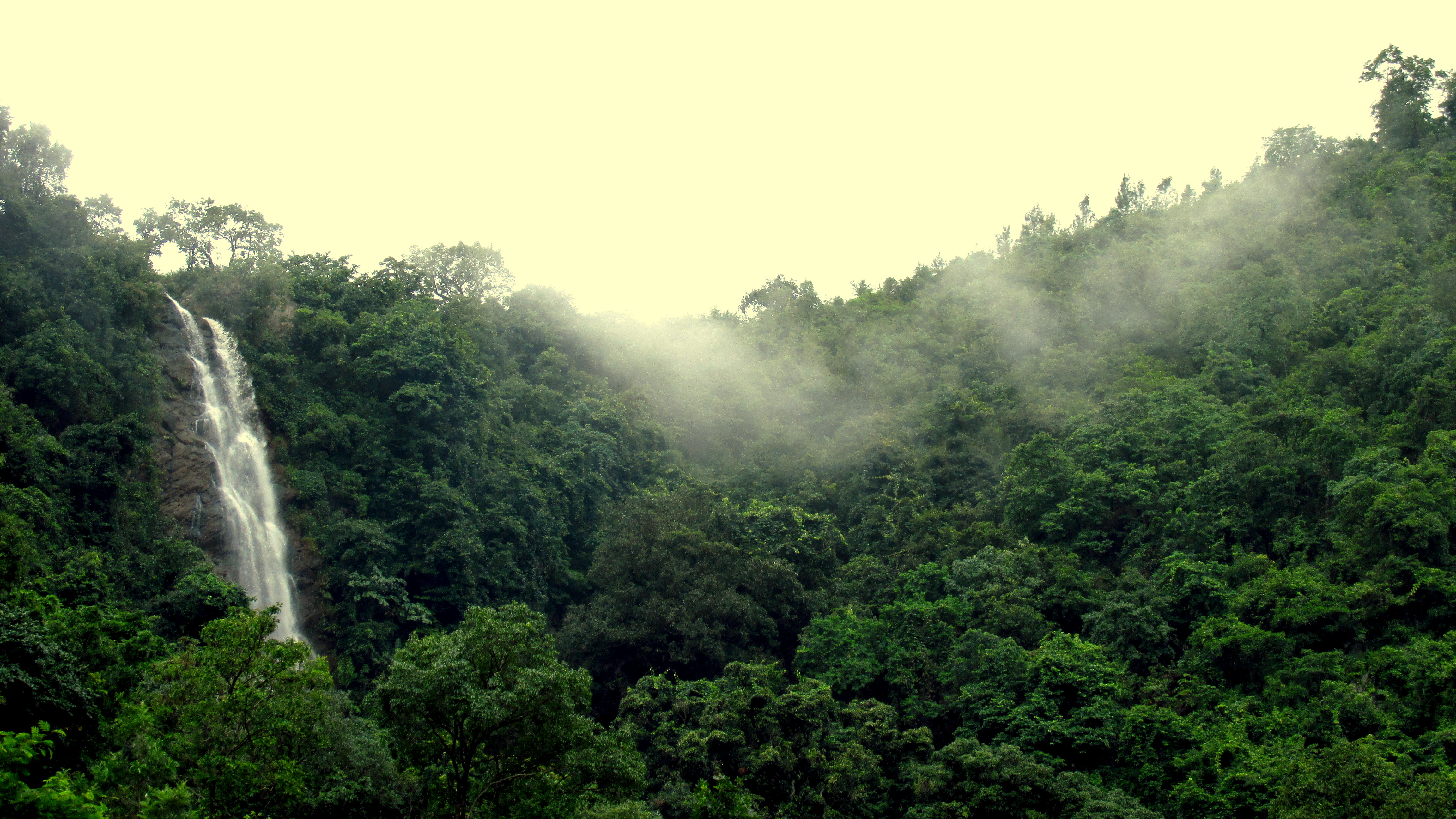 Katiki waterfall, Araku, Andhra Pradesh